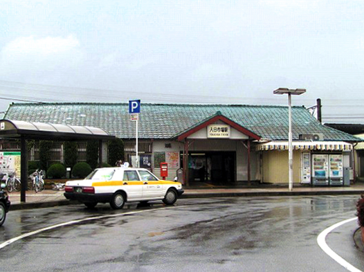 Yōkaichiba Station on the Sōbu Main Line, in Sōsa, Chiba, Japan